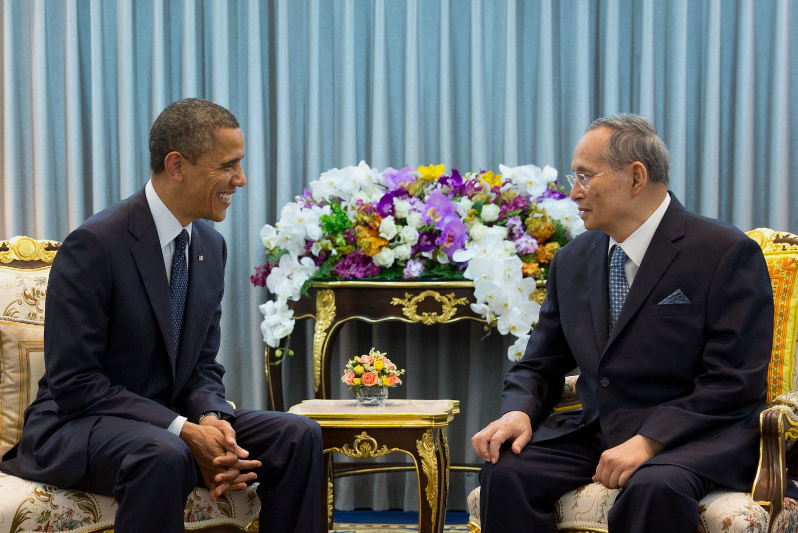 President Barack Obama, with Secretary of State Hillary Rodham Clinton and Ambassador Kristie Kenney, left, meet with King Bhumibol Adulyadej of the Kingdom of Thailand, at Siriraj Hospital in Bangkok, Thailand, Nov. 18, 2012.